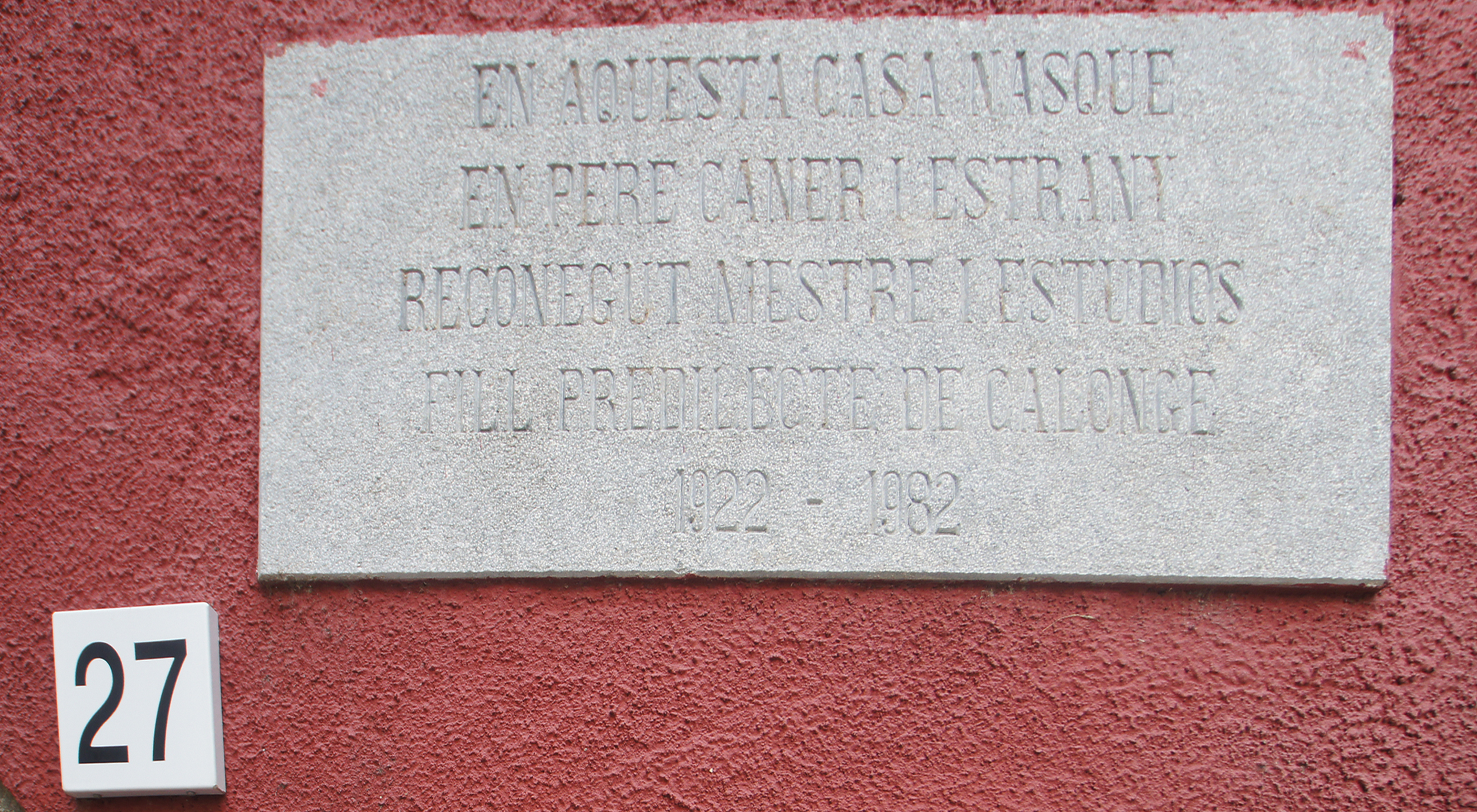 Calonge, Catalonia: Plaque at the birth house of Pere Caner i Estrany